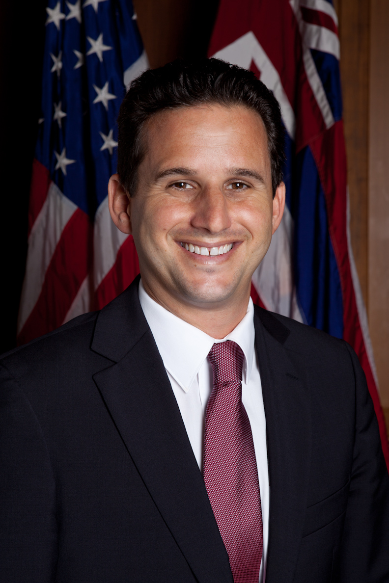 Official portrait of U.S. Senator Brian Schatz.